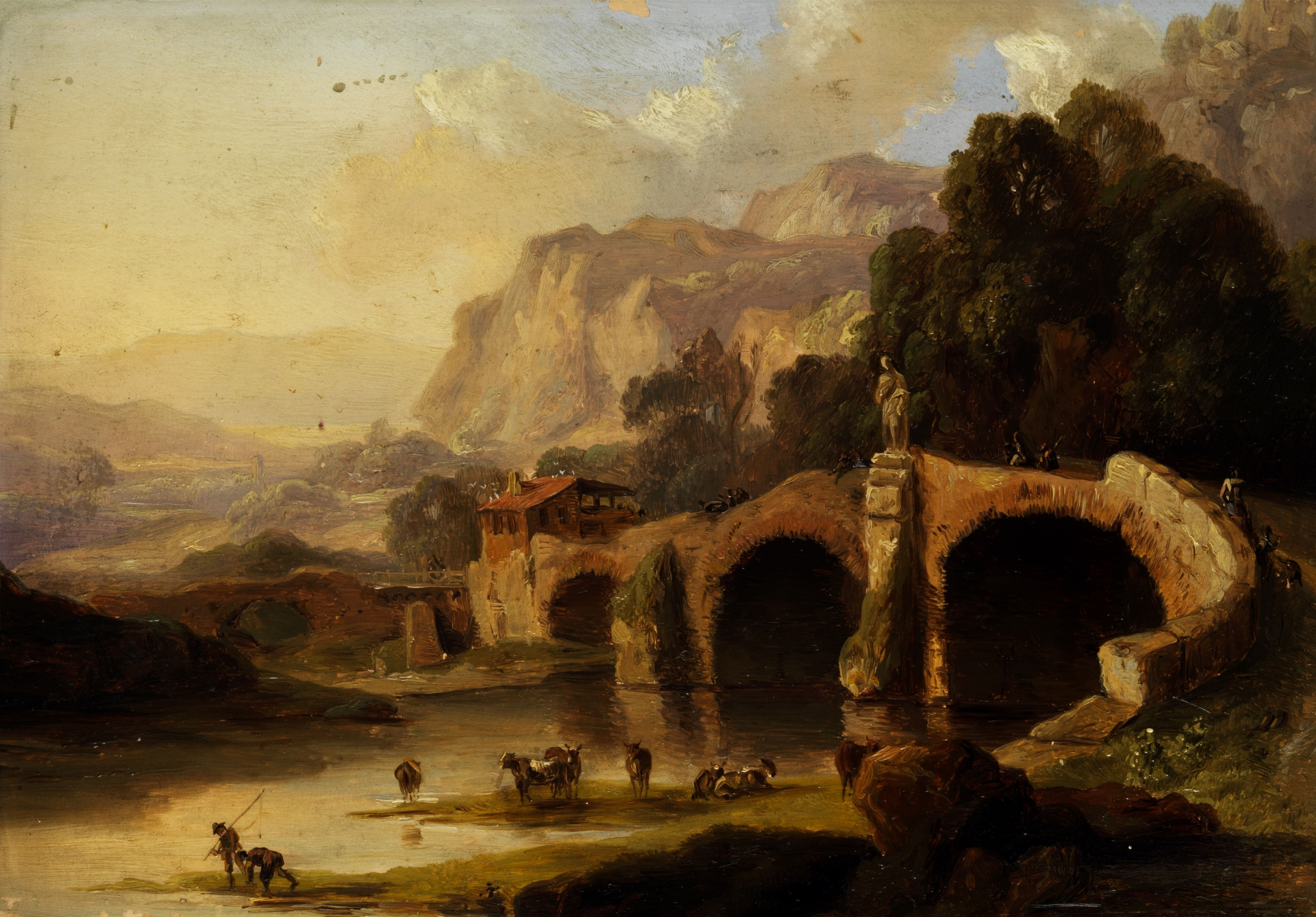 Deep landscape with river and bridge. Oil on wood. 14,5 cm x 22 cm.